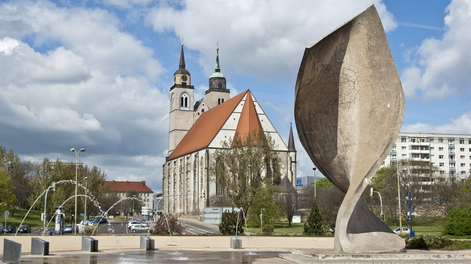 Saint John the Evangelist Church Magdeburg